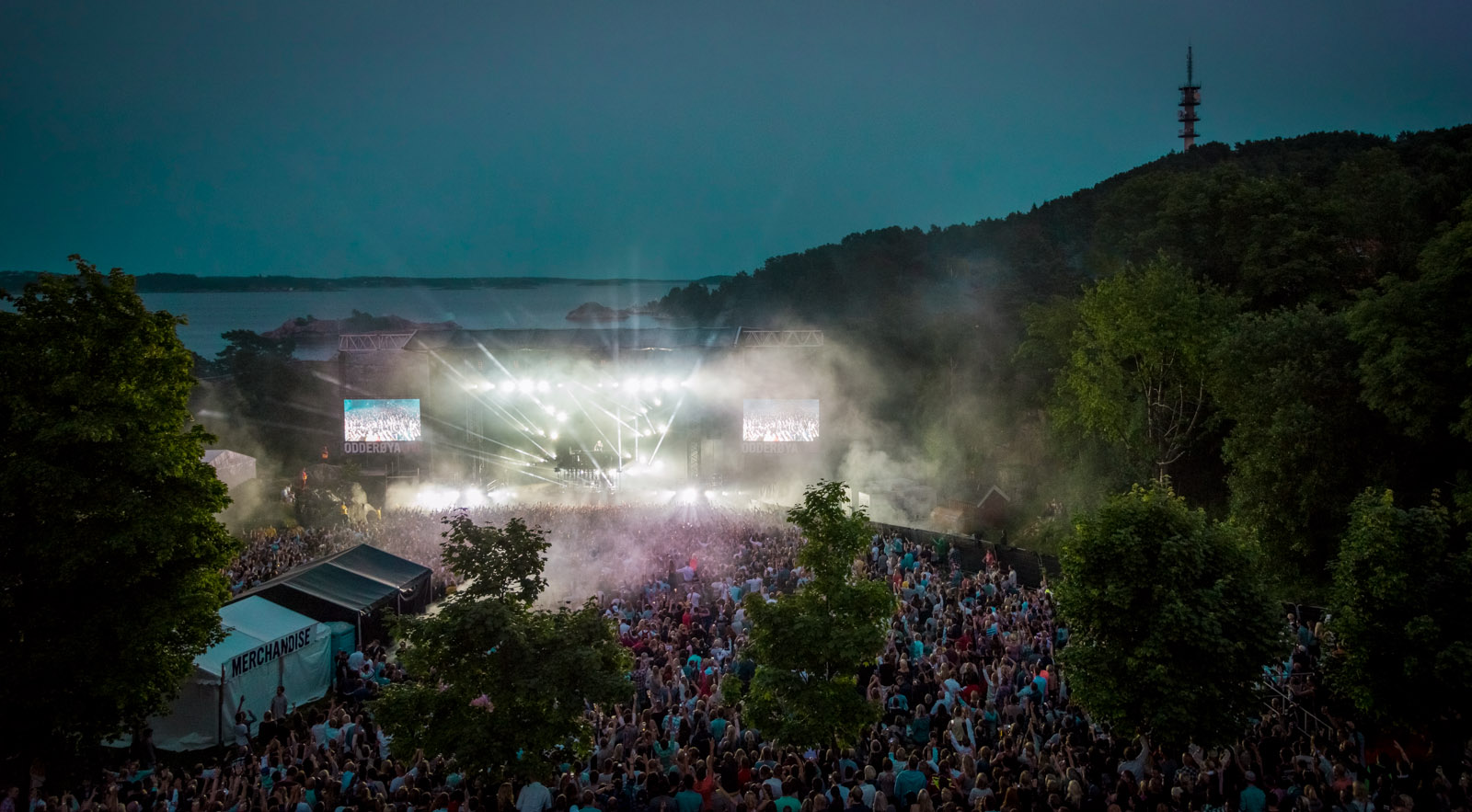 David Guetta live at Odderøya Live 2013